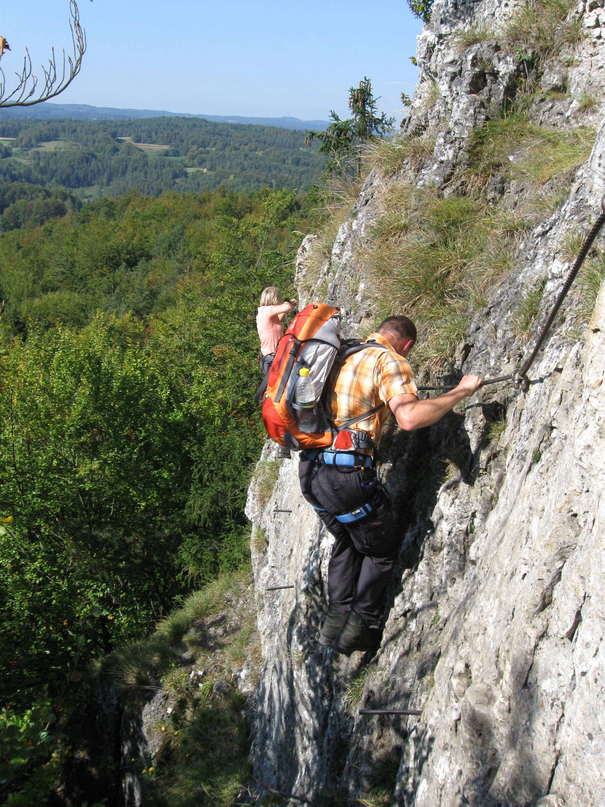 The Via ferrata Höhenglücksteig in the Hersbrucker Alb